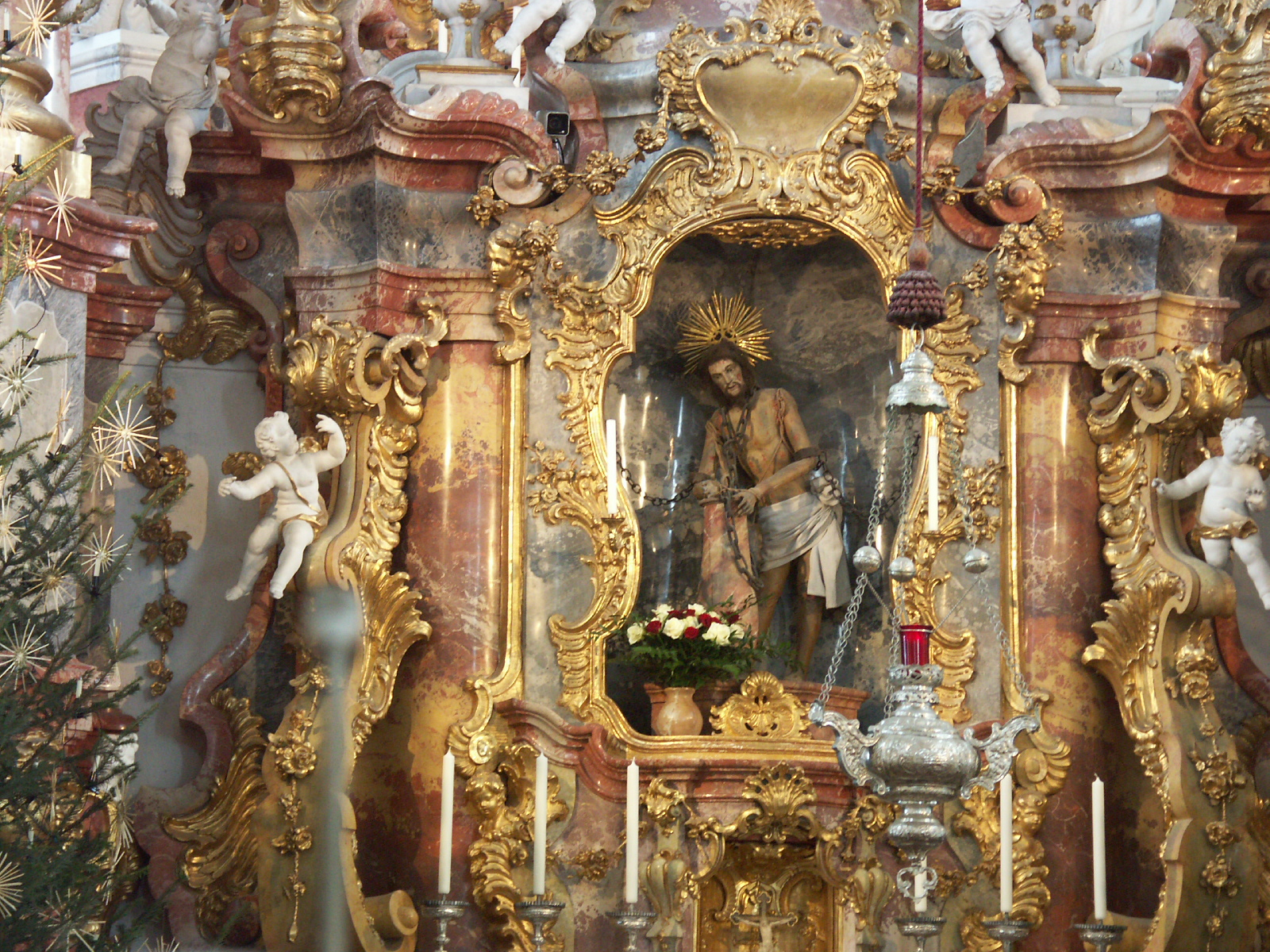 Wies church (Wieskirche), Germany - Figure of the Scourged Saviour